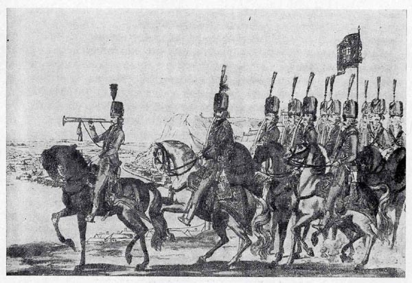 Hungarian hussar troops set up by the Hungarian nobility in the end of the 18th century, during the Russo-Turkish War (1787-1792). The picture was published in the Hungarian journal, called Hadi és Más Nevezetes Történetek, edited and published by Demeter Görög, in the same period of the wars. The journal was came to live because Görög wanted to write reports about the war.